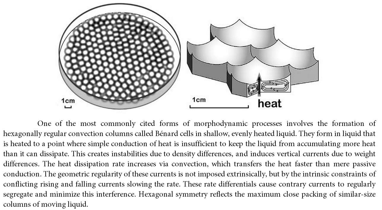 One of the most comnonly cited forms of morphodynamic processes involves the formation of hexagonally regular convection columns called Benard cells in shallow, evenly heated liquid. They form in liquid that is heated to a point where simple conduction of heat is insufficient to keep the liquid from accumulating more heat than it can dissipate. This creates instabilities due to density differences, and induces vertical currents due to weight differences. The heat dissipation rate increases via convection, which transfers the heat faster than mere passive conduction. The geometric regularity of these currents is not imposed extrinsically, but by the intrinsic constraints of conflicting rising and falling currents slowing the rate. These rate differentials cause contrary currents to regularly segregate and minimize this interference. Hexagonal symmetry reflects the maximum close packing of similar-size columns of moving liquid.